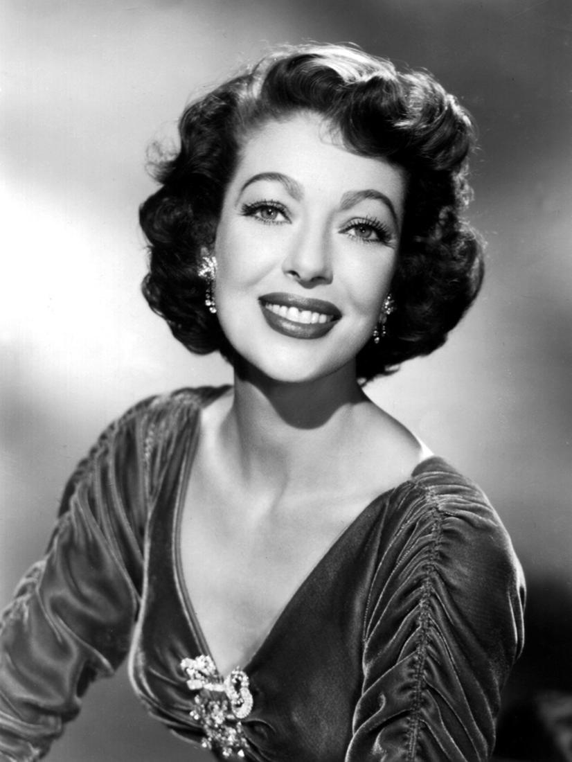 A promotional shot of Loretta Young